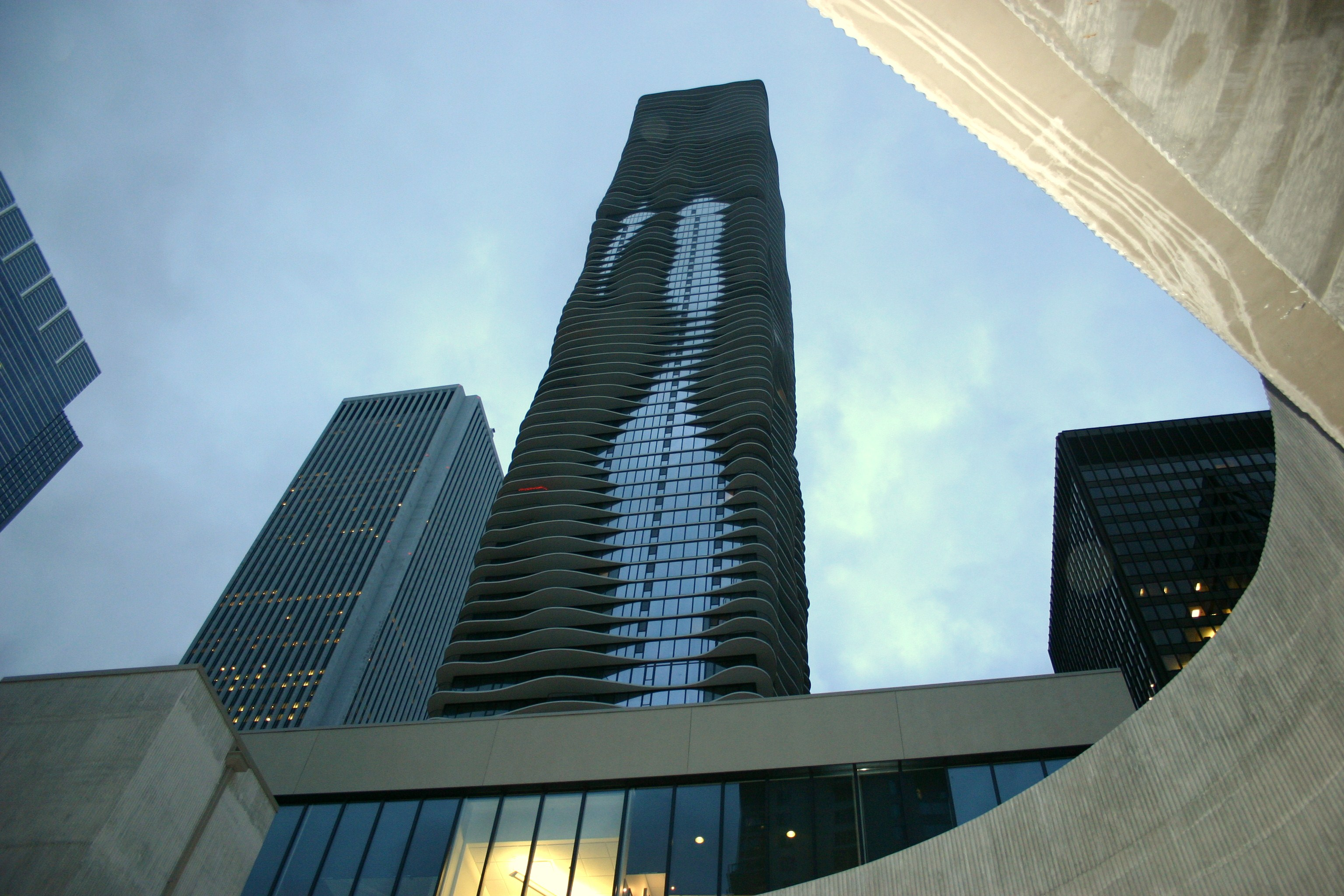 Jeanne Gang's Aqua Tower rises distinctively amongst its modernist Chicago neighbors.